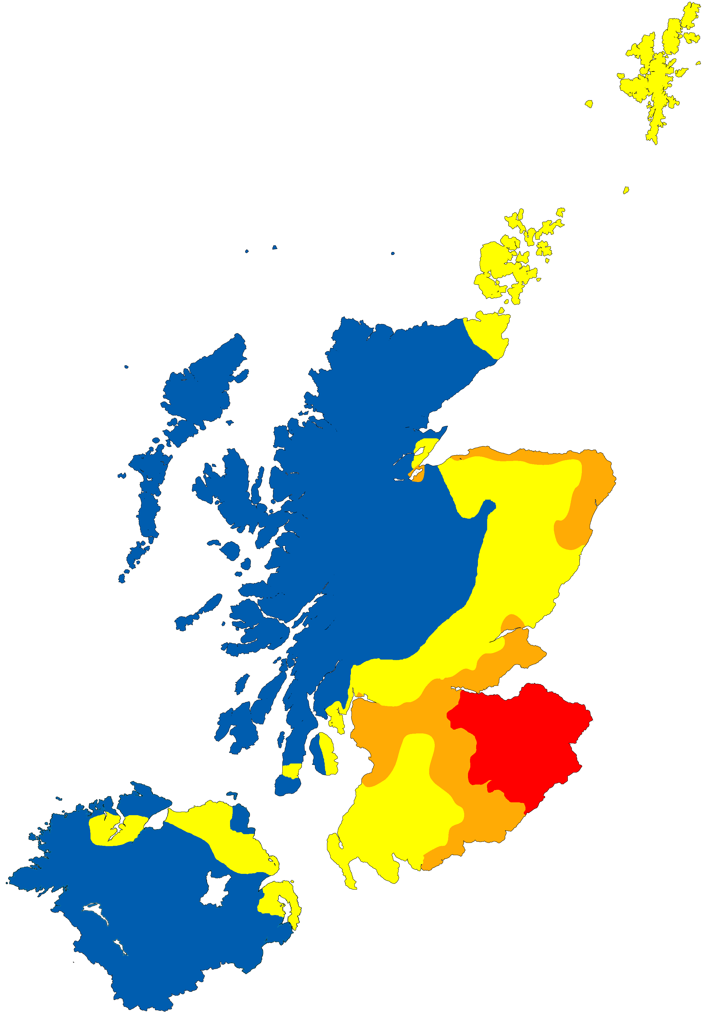 A map showing the historic and present-day distribution of the English/Scots language (not to be confused with Scottish Gaelic) within the borders of modern Scotland and Ulster. Northumbrian Old English had been established in what is now southeastern Scotland as far as the River Forth by the seventh century, as the region was part of the Anglo-Saxon kingdom of Northumbria. It remained largely confined to this area until the thirteenth century, continuing in common use while Gaelic was the language of the Scottish court. The succeeding variety of Early northern Middle English spoken in southeastern Scotland, also known as Early Scots, began to diverge from that of Northumbria. From the thirteenth century, Early Scots spread further into Scotland via the burghs, proto-urban institutions which were first established by King David I. The growth in prestige of Early Scots in the fourteenth century, and the complementary decline of French in Scotland, made Scots the prestige language of most of eastern Scotland. The extent of Old English by the beginning of the 9th century in the northern portion of the Anglo-Saxon kingdom of Northumbria, now modern southeastern Scotland, which had been established there since the 7th century (In addition to red) The extent of Early Scots – called Inglis or Ynglis by its speakers during the period – by the beginning of the 15th century (In addition to red and orange) The present-day extent of Modern Scots